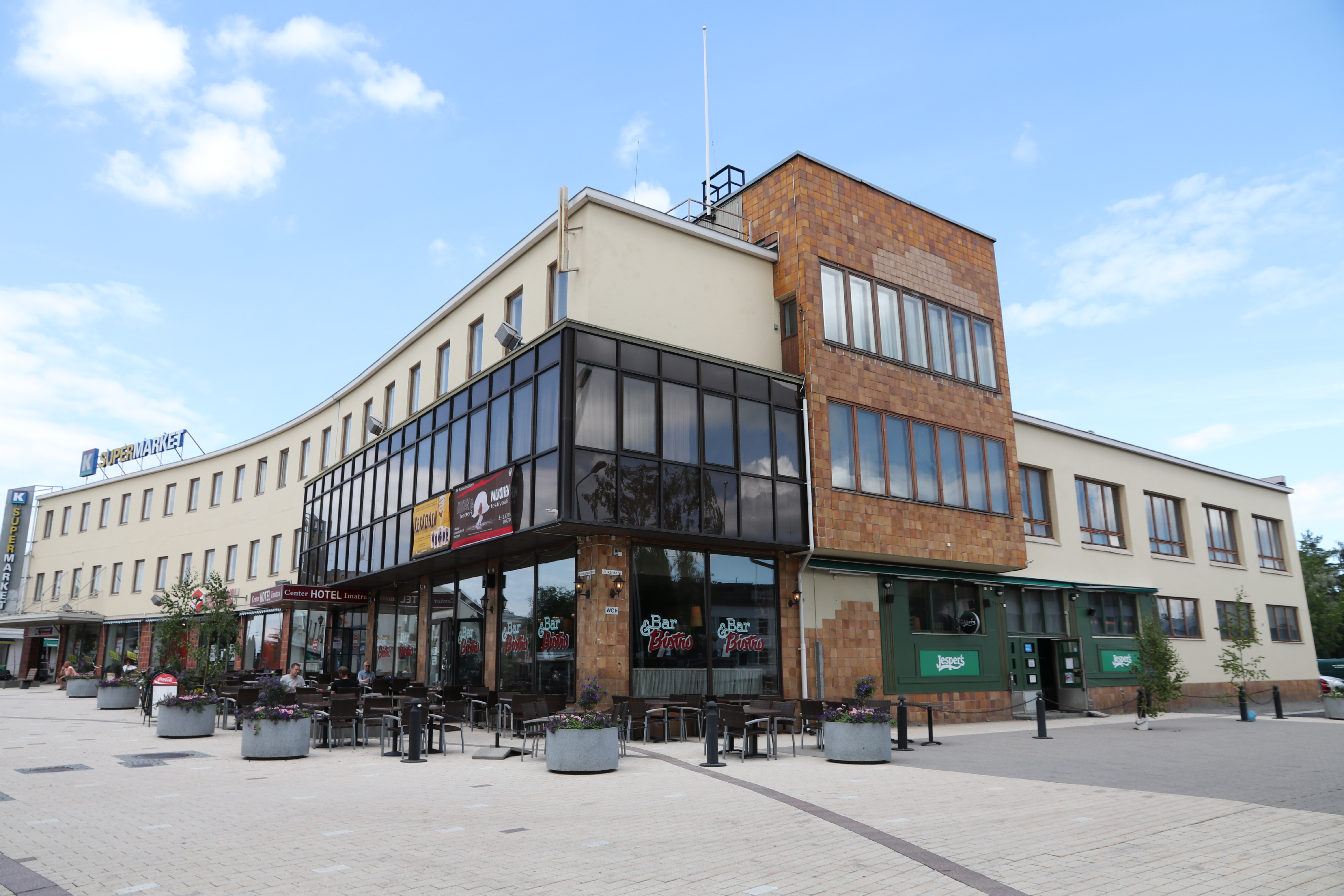 The "crooked house" in Imatra.